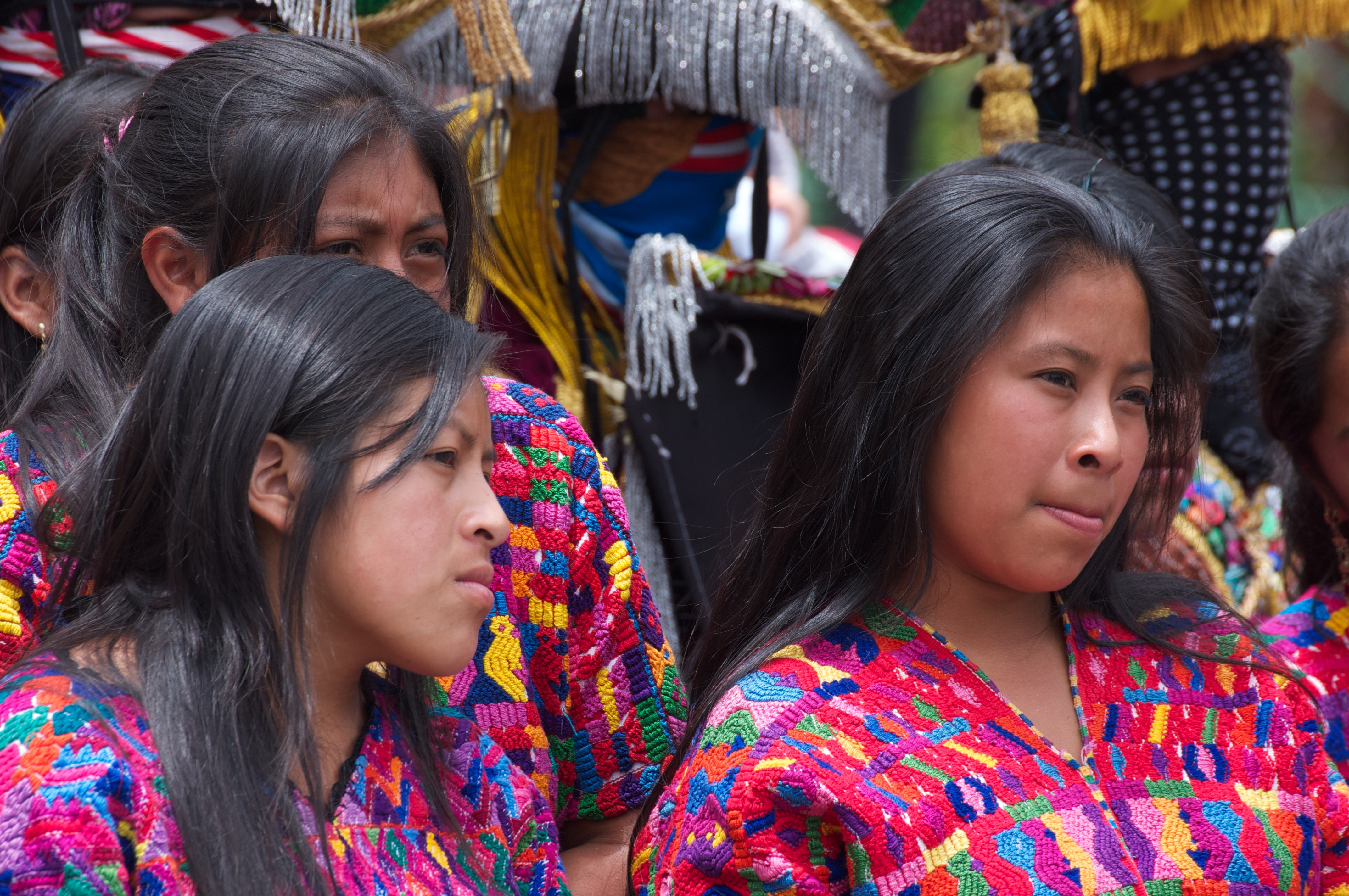 Young Mayan women in traditional dress - Antigua Guatemala - Sacatepéquez Department - Guatemala